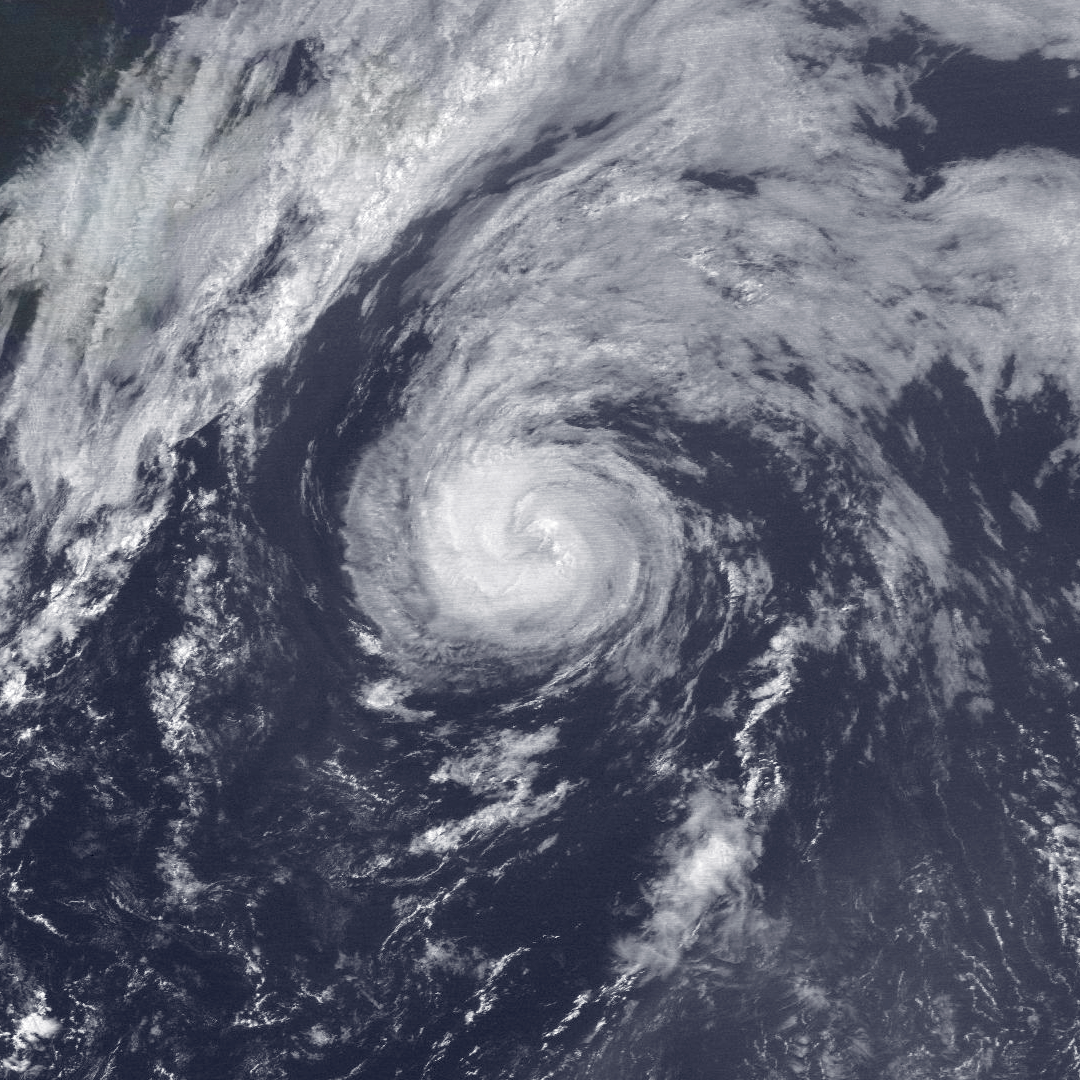 Hurricane Arlene at peak intensity over the northern Atlantic Ocean on August 22, 1987